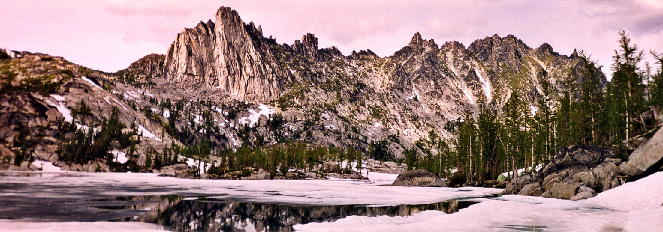 Prusik Peak seen from Leprechaun Lake. The Temple to the right. Enchanted Lakes area of Alpine Lakes Wilderness. "The Enchantments" (Photo has annotations)